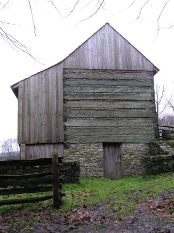 Pennsylvania Log Barn, Ulster American Folkpark Looking westwards.